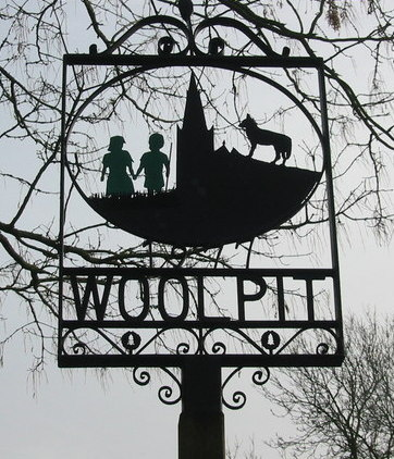 The village sign, showing the green children of Woolpit. Cropped from original